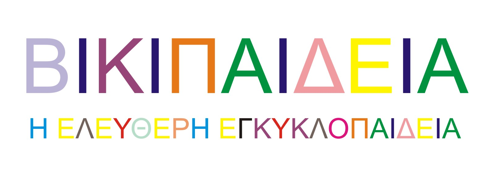 Synesthesia greek Wikipedia example